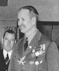 Photograph of the Finnish scout leader Verneri Louhivuori (1886–1980)